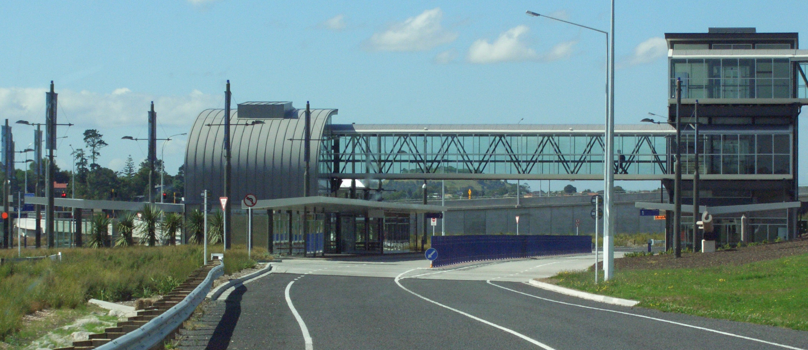 Auckland's Northern Busway adjacent to the Northern Motorway, State Highway 1. Akoranga station. The covered walkway extends across the Motorway to the campus on the opposite side. Akoranga is the southern-most station and southern end of the Busway. Buses continue from here to Auckland City via the Motorway and Auckland harbour Bridge.